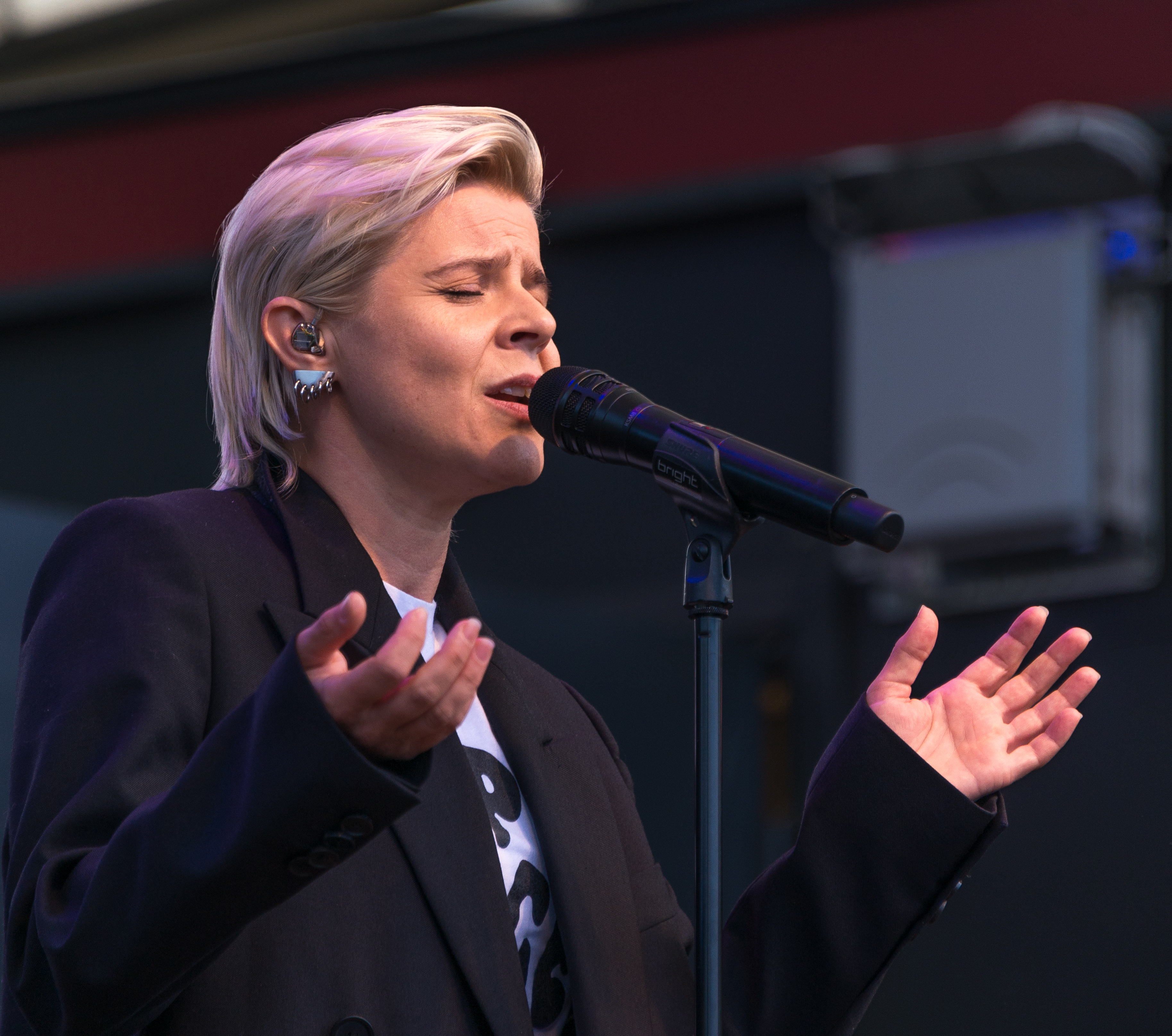 The Fridays for Future climate demonstration on September 27 in Stockholm attracted 50,000 people and culminated in Kungsträdgården with concerts and speeches. Robyn performed with songs.